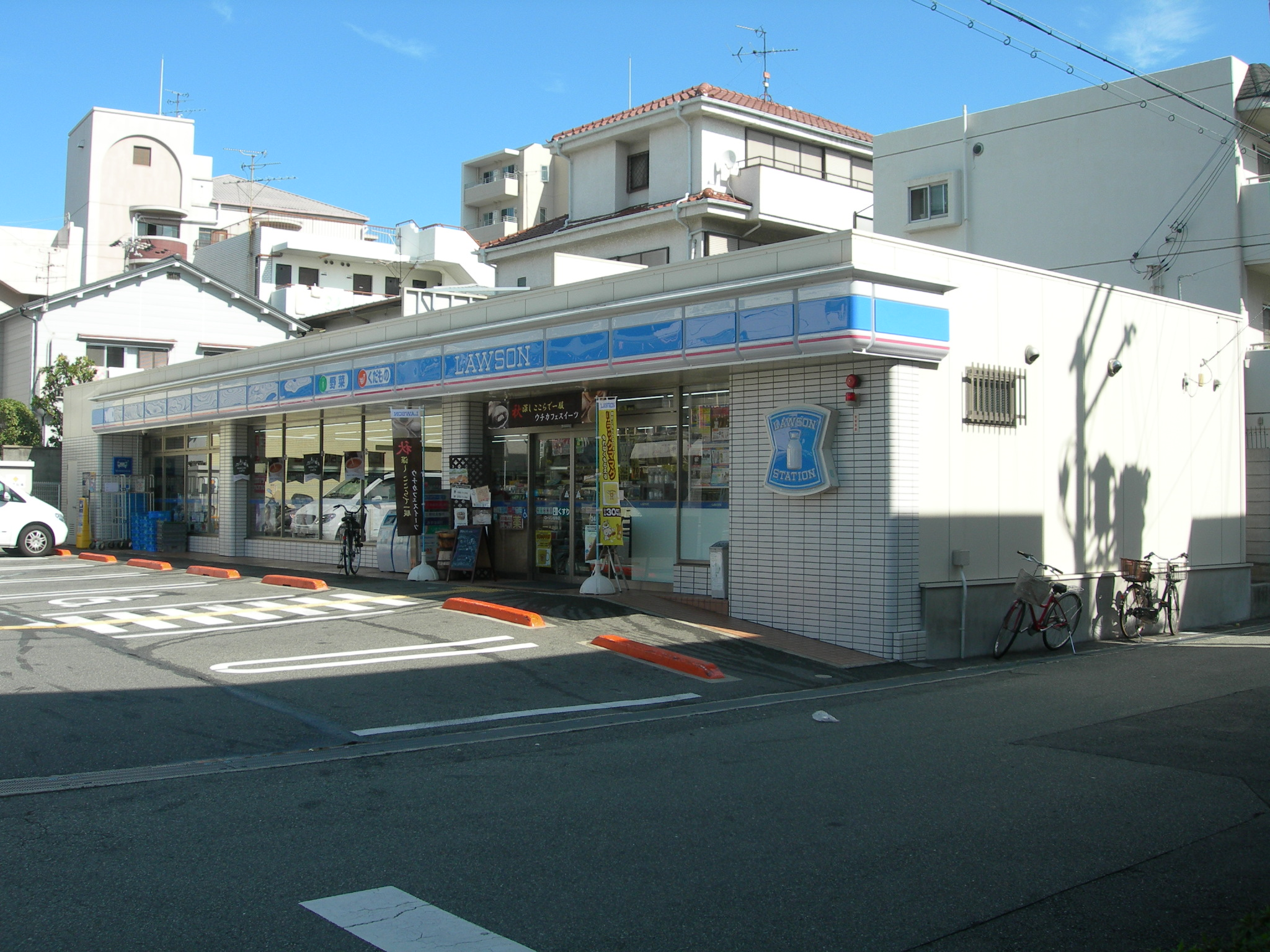 Lawson Sakurazuka shop (First store in Japan), Toyonaka, Osaka.